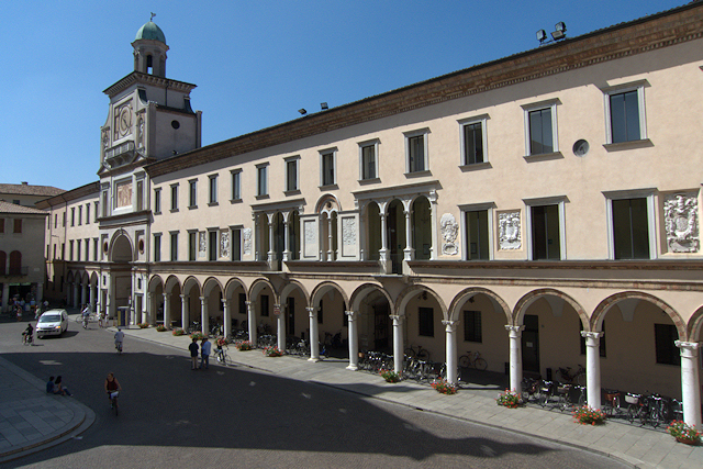 Town hall of Crema, province of Cremona, Italy